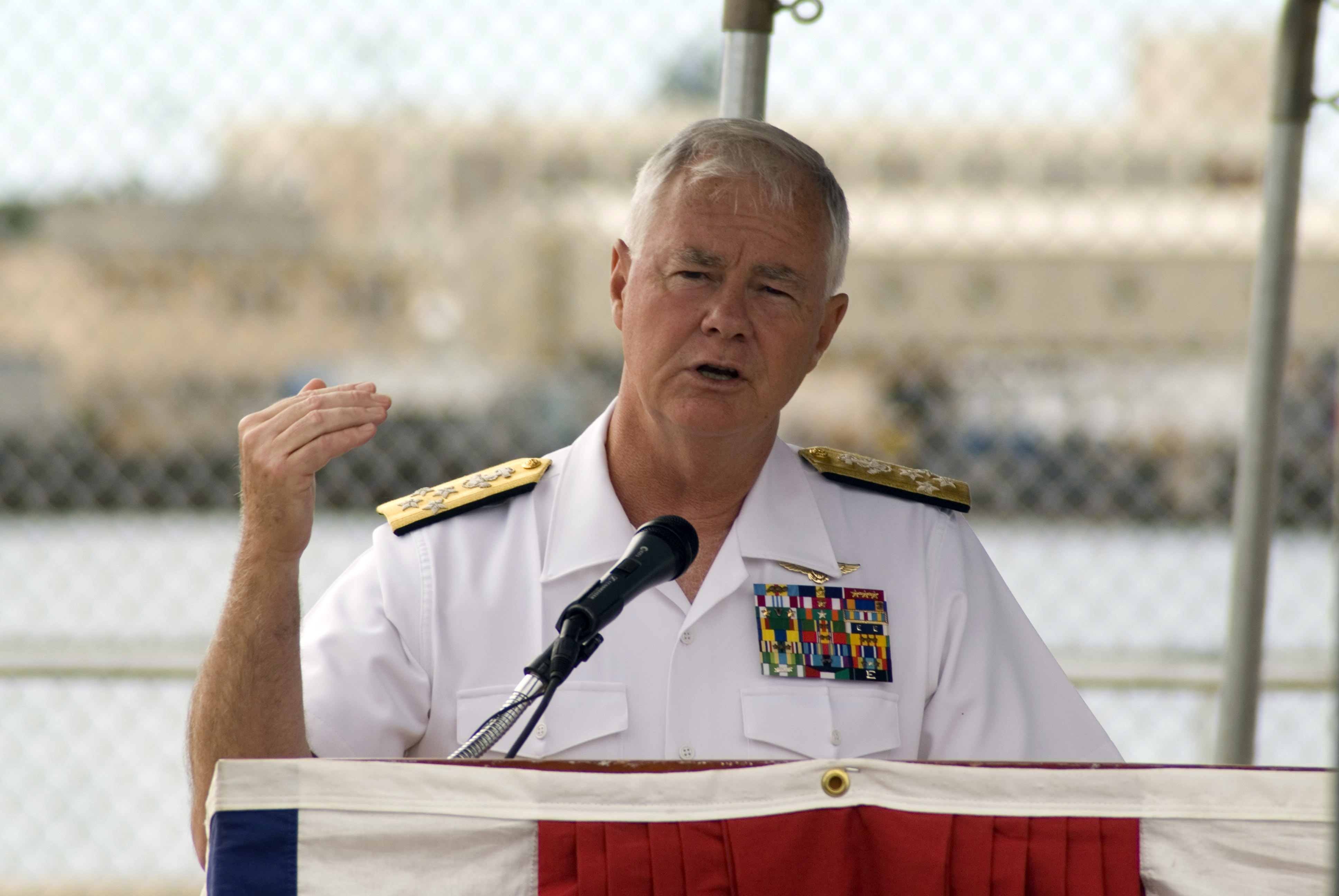 FORD ISLAND, Hawaii (Aug. 29, 2007) - Adm. Timothy J. Keating, commander of U.S. Pacific Command (PACOM), speaks to guests at the groundbreaking ceremony of the Pacific Warfighting Center. The $20-million facility, expected to be completed July 2009, is being built to enhance joint and multilateral operational missions and training by providing and environment for commanders and their staffs within the PACOM region to train for scenarios that can either be live, virtual or networked. U.S. Navy photo by Mass Communication Specialist 3rd Class Paul D. Honnick (RELEASED)